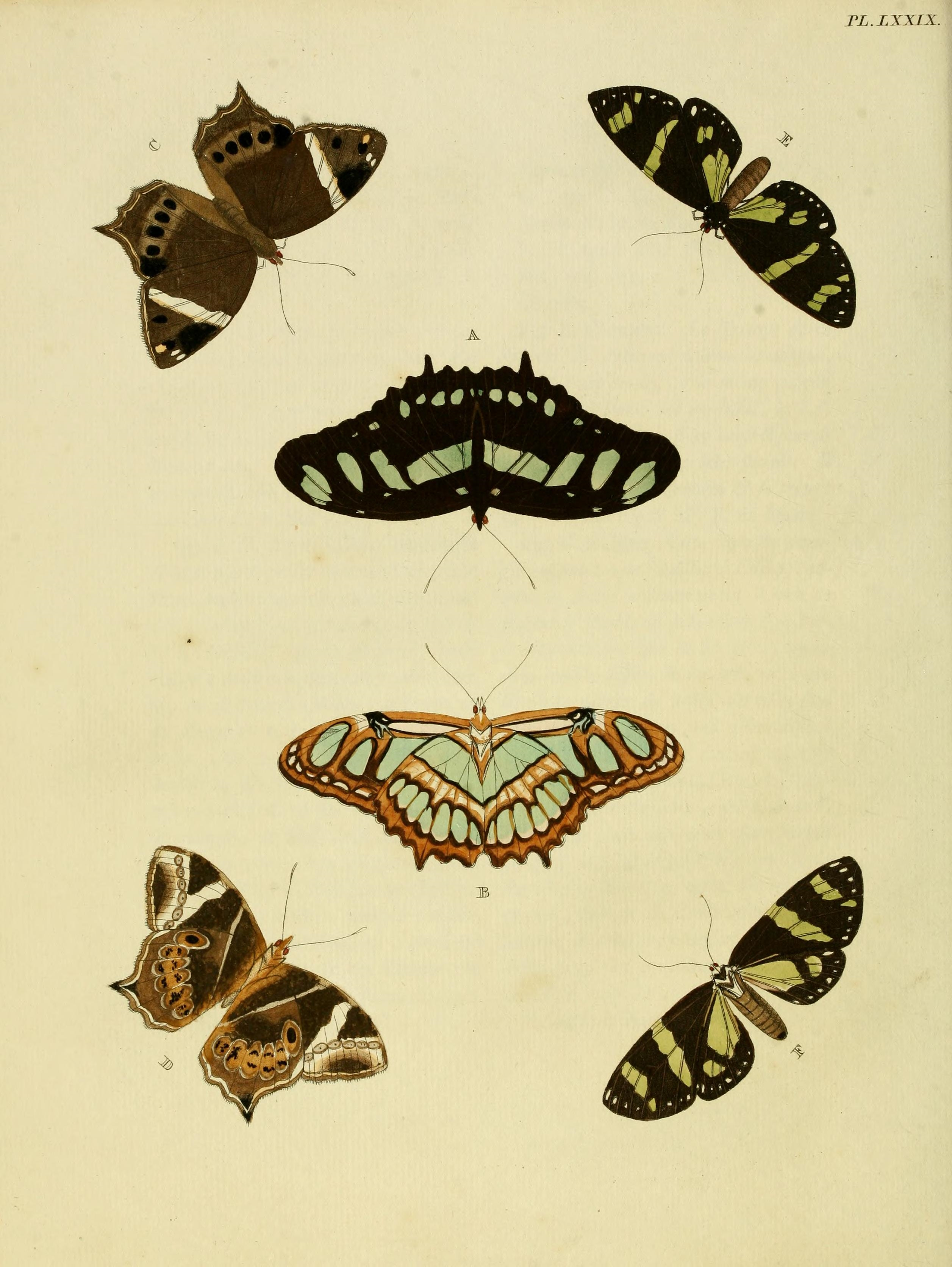 Plate LXXIX A, B: "(Papilio) Stelenes" ( = Siproeta stelenes), see Funet C, D: "(Papilio) Beroë". Unidentified. Maybe Papilio beroe Fabricius, 1793, = Apatura iris (Purple Emperor, see Funet), but year does not match. E, F: "(Phalaena) Catilina" ( = Chetone catilina, iconotype?), see Funet